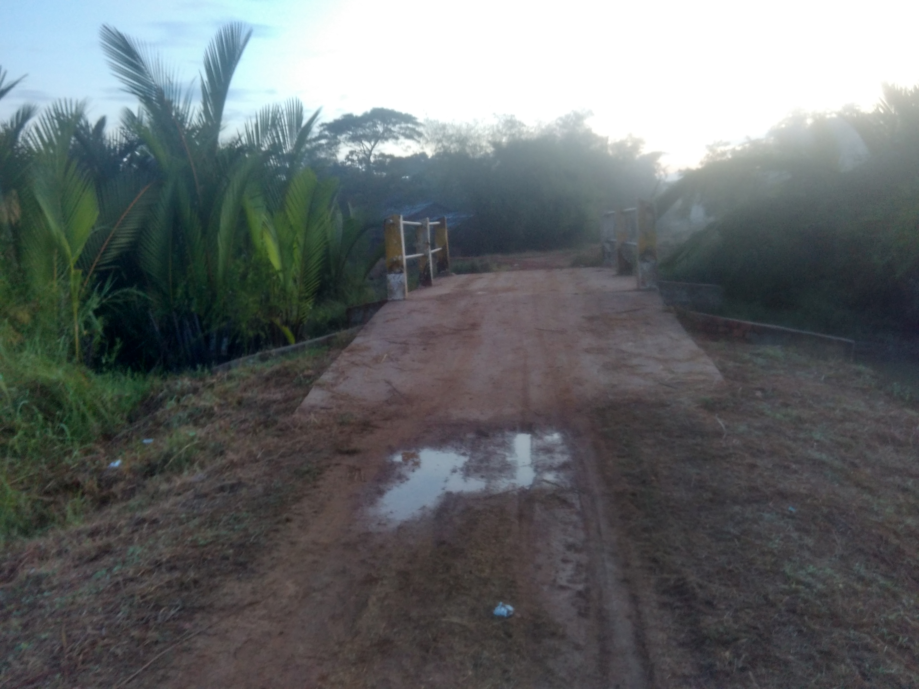 Ma Kyet Kalay Village မြန်မာဘာသာ: မကျက်ကလေး ရွာအဝင်ပုံ ဖြစ်သည်။